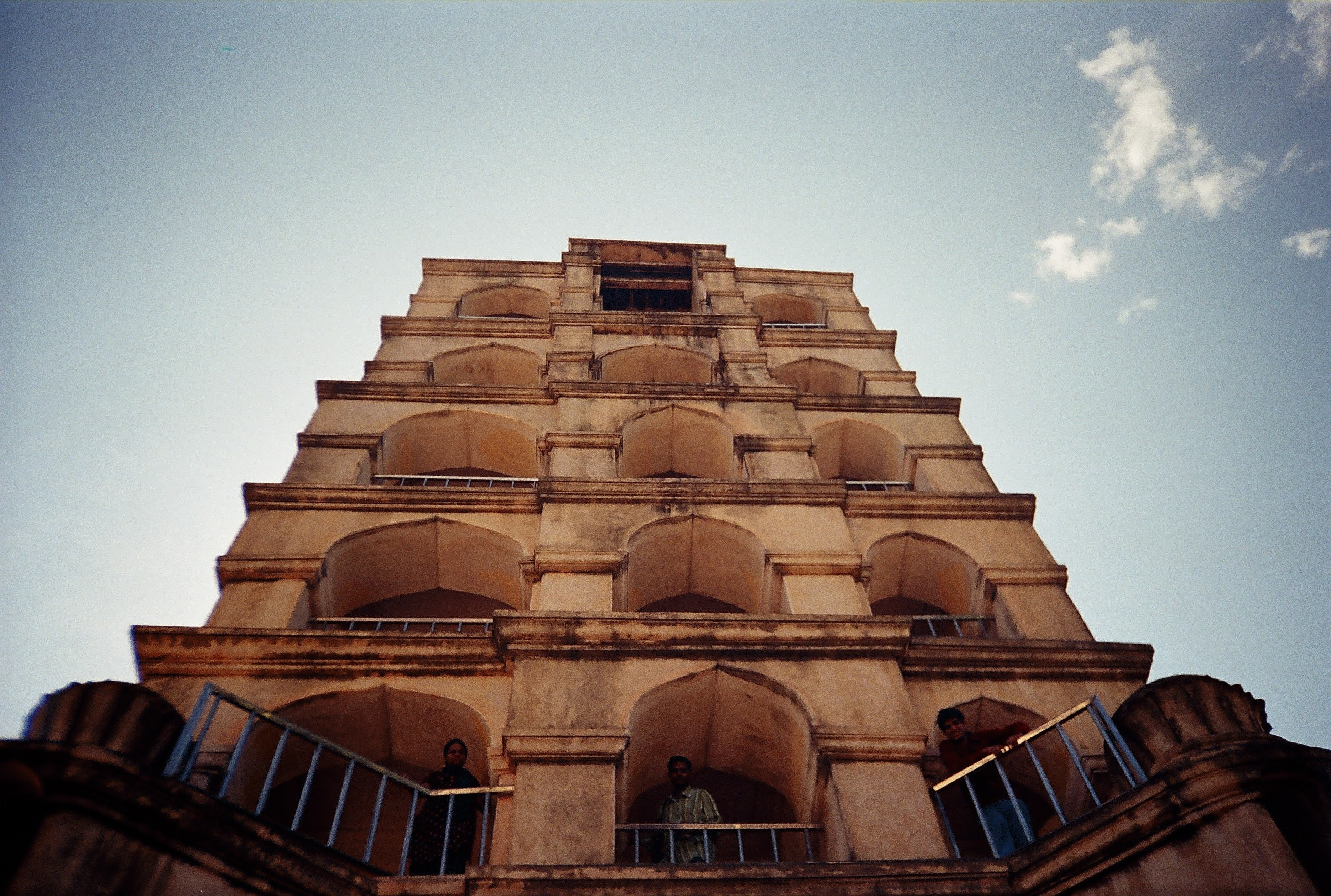 Bell Tower inside the Thanjavur Palace Photo created (scanned & GIMPed) : 26 September 2005 Photo taken : 24 September 2005 Photographer : Navendu